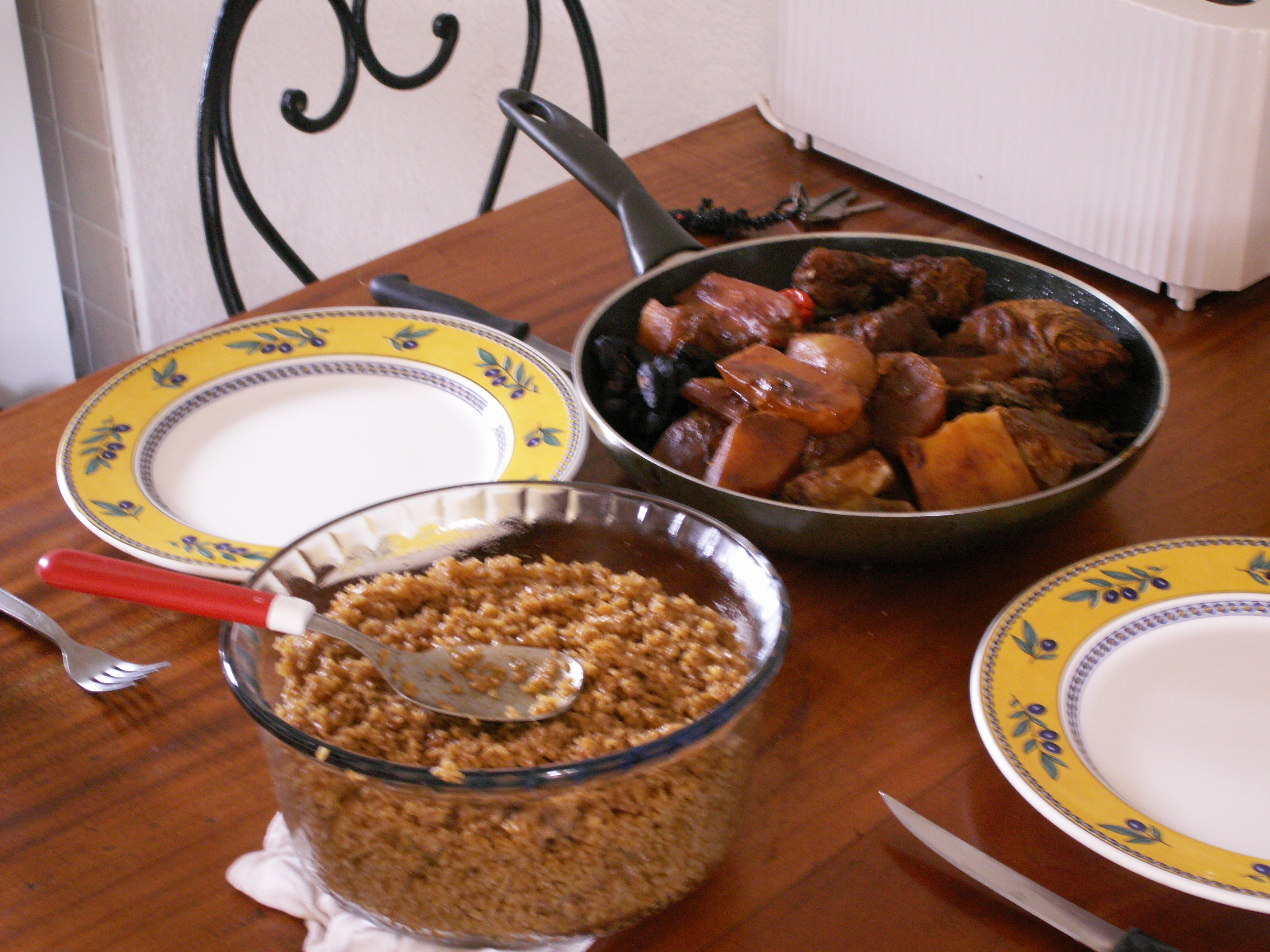 Senegal cuisine - Senegals second famous dish, the thiéboudienne